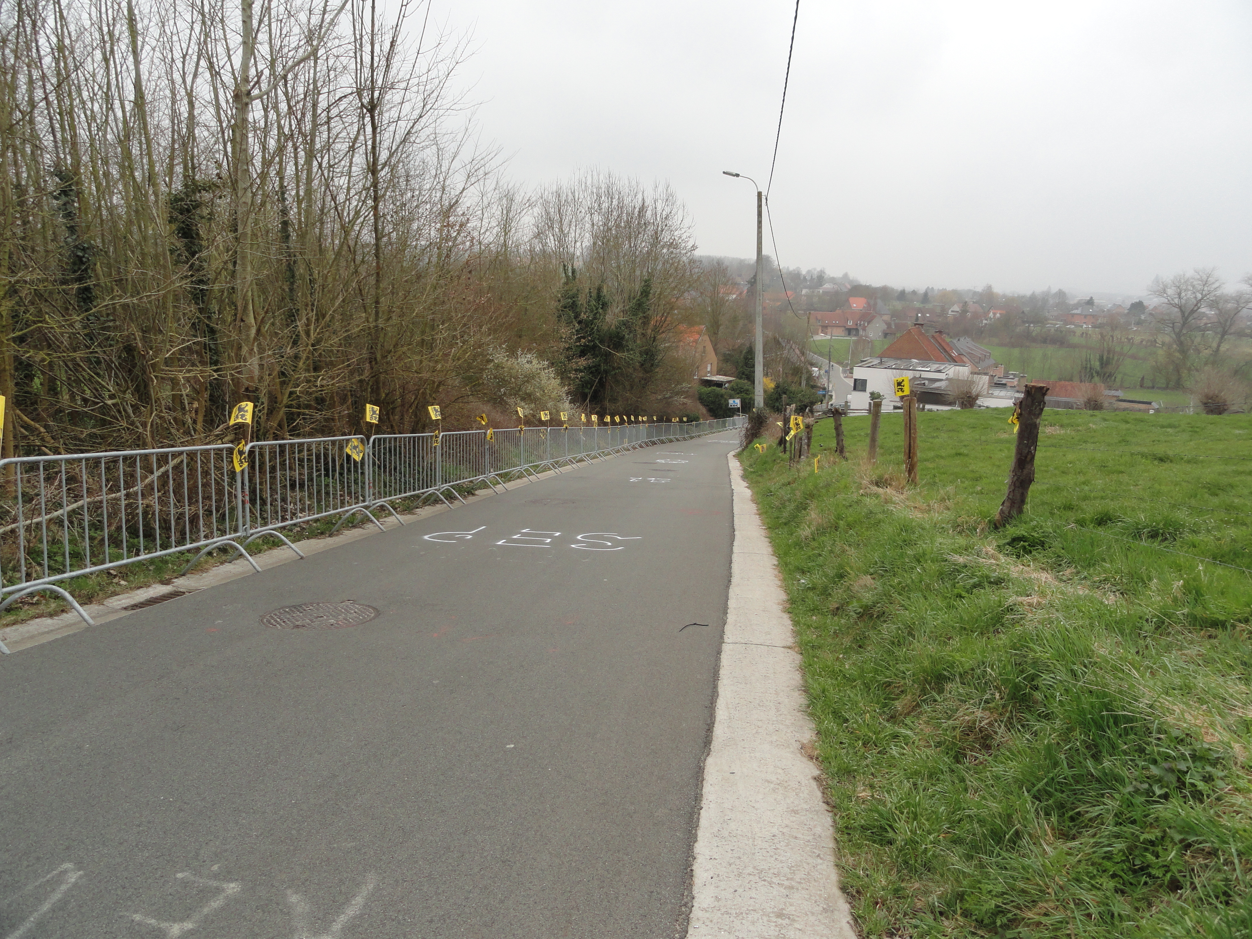 Wolvenberg during Tour of Flanders 2018.